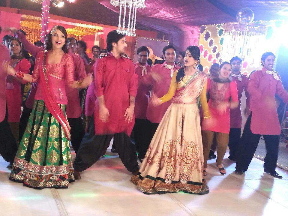 Armaan is a 2013 Pakistani film. It starer Fawad Khan and Aamina Sheikh.